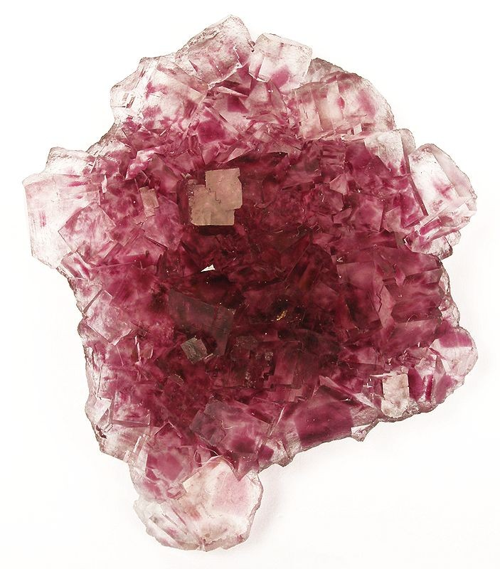 Fluorite Locality: Okorusu Mine (Okarusu Mine), Otjiwarongo District, Otjozondjupa Region, Namibia (Locality at ) Size: 6.4 x 6.0 x 1.1 cm. This thin plate of lustrous and translucent, intergrown fluorite is highlighted by crystals that have a rich lavender color interspersed with colorless areas. Crystal size reaches .7 cm across. Exceptionally gemmy and translucent.